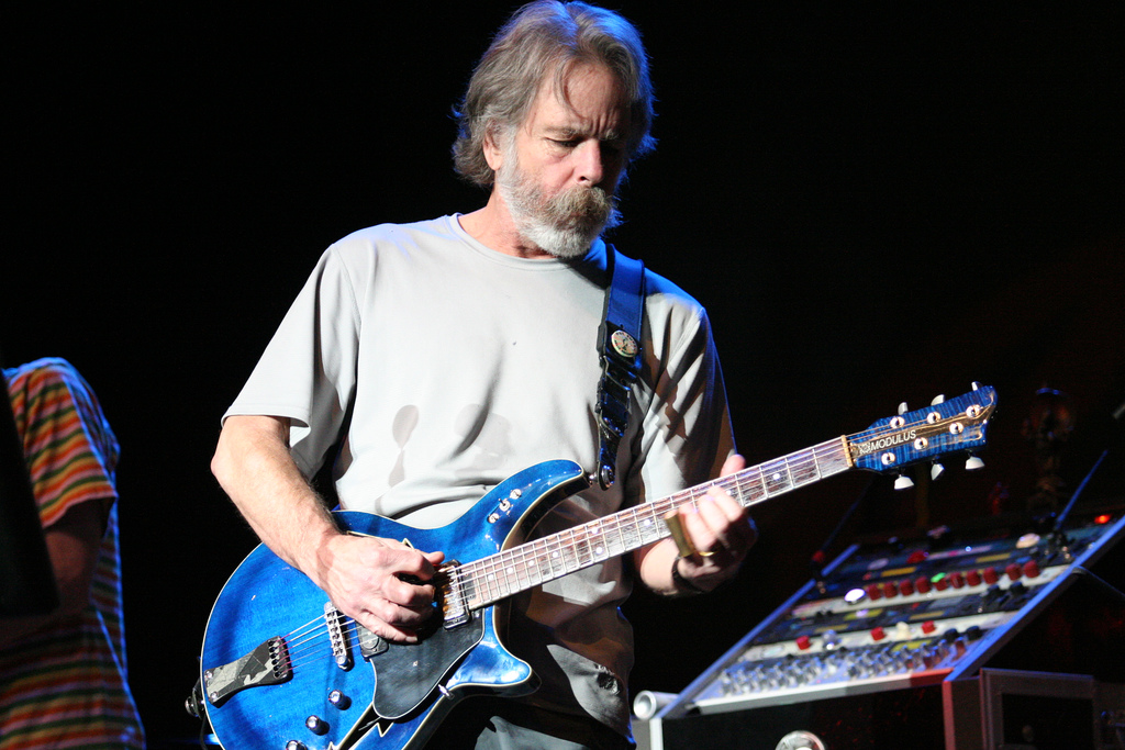 American singer Bob Weir, best known as a founding member of the Grateful Dead.